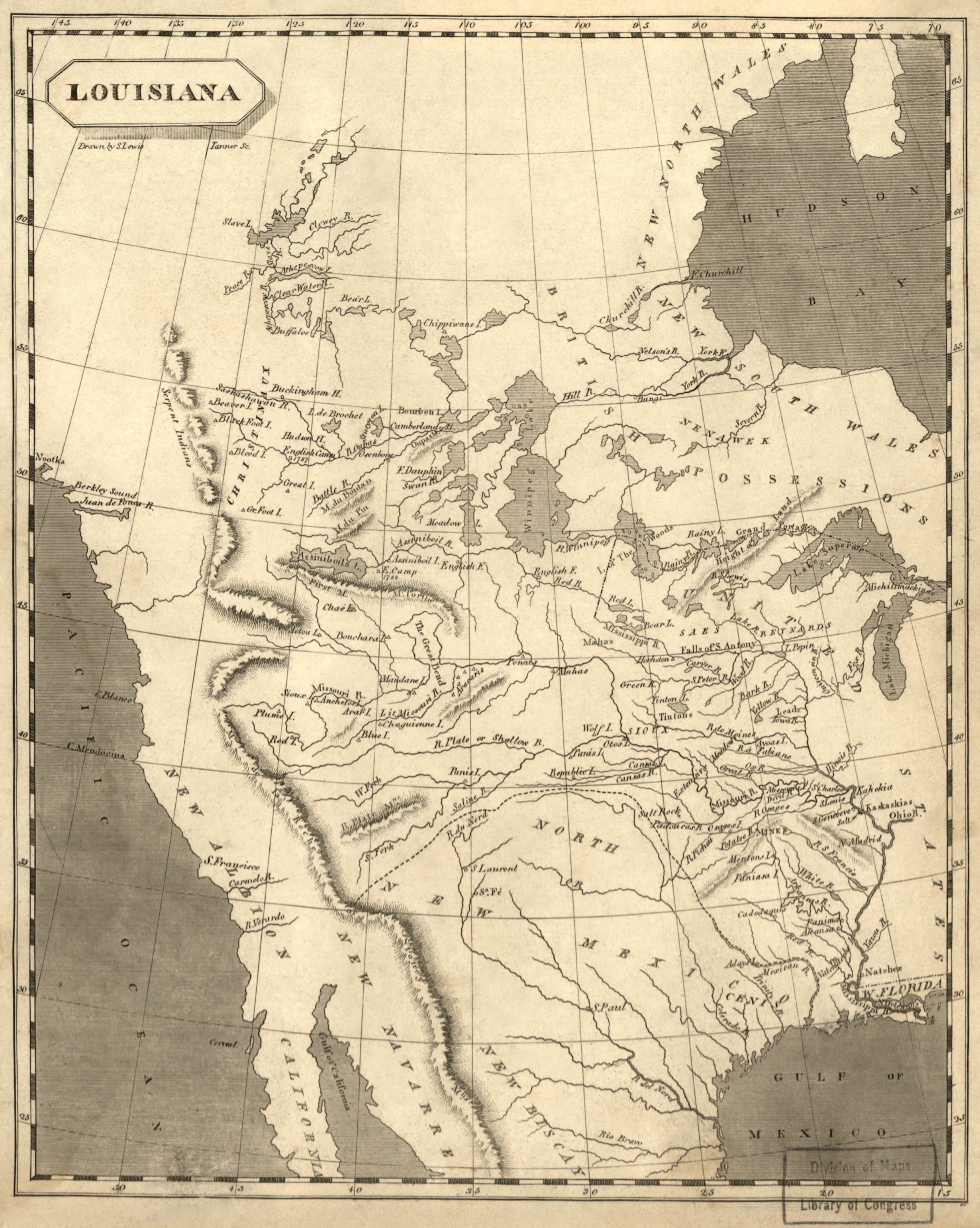 1804 map of "Louisiana" Samuel Lewis (ca.1753-1822). "Louisiana" in Aaron Arrowsmith, New and Elegant General Atlas. Philadelphia: 1804 Engraved map Library or Congress Geography and Map Division (34)